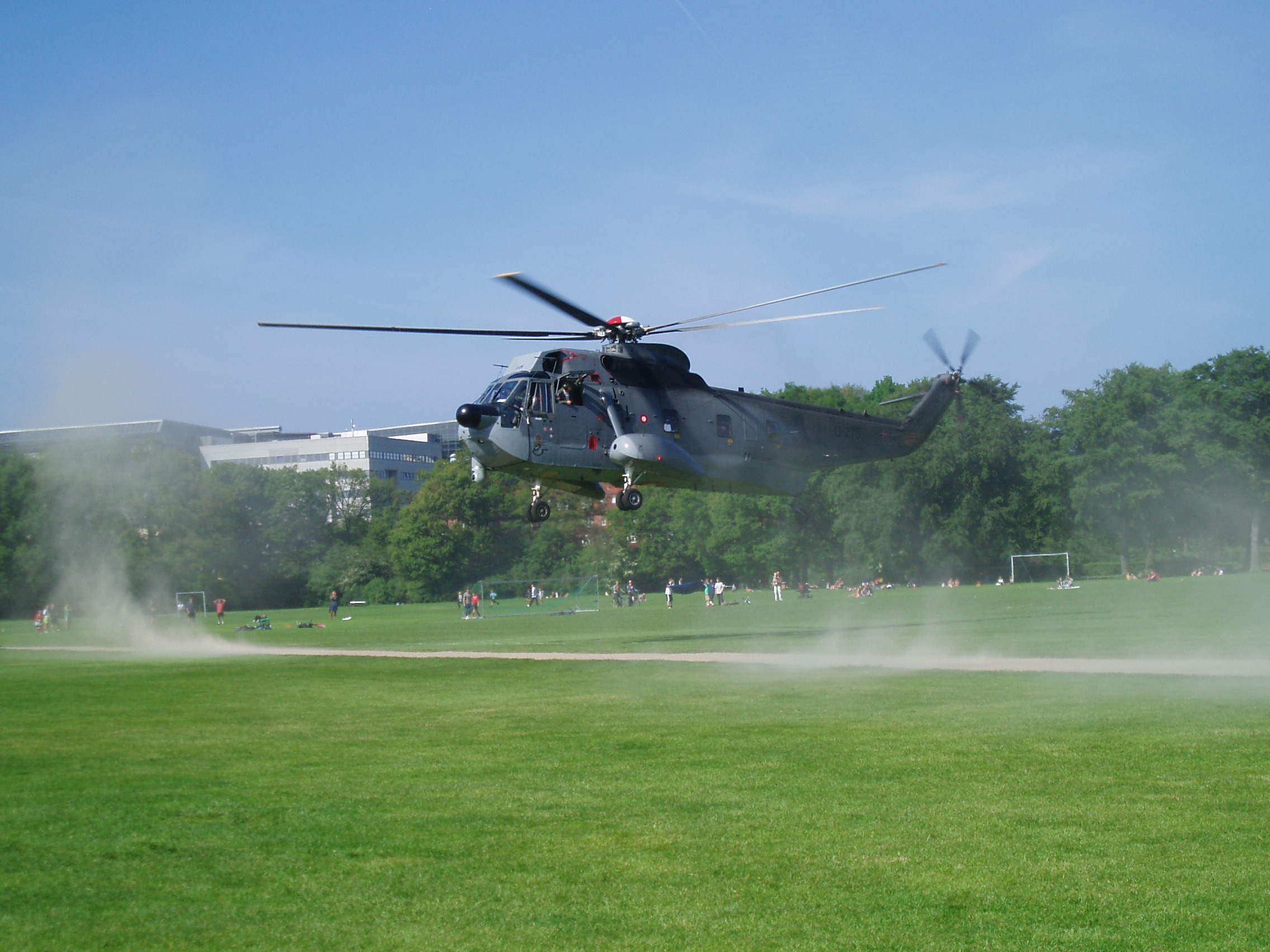 RDAF Sikorsky S-61 rescue helicopter taking off from Fælledparken, Copenhagen.